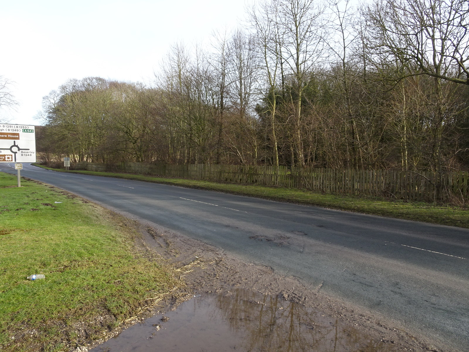 Sledmere & Fimber railway station (site)Fimber, East Riding of Yorkshire, England.Opened in 1853 by the Malton & Driffield Railway, this line soon became part of the North Eastern Railway empire. The station closed in 1950 to passengers, and completely in 1958. View south east along the trackbed across the former level crossing, towards Wetwang and Driffield. The railway crossed the road diagonally with the station immediately beyond. The station site was a wooded picnic area when this image as taken.